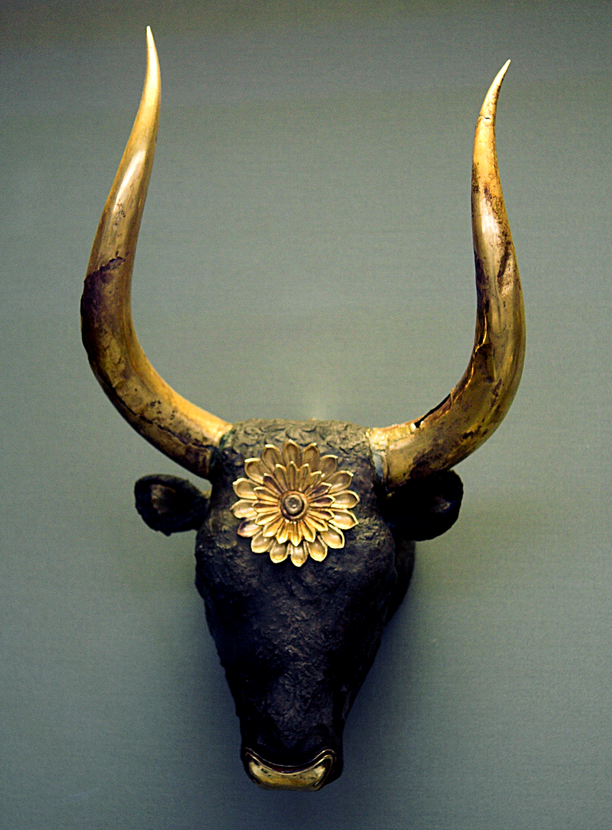 Rhyton in the shape of a bull's head. Craftsmanship of bronze, inlaid semi-precious stones and gilded. Mycenae, Acropolis. 16th century BCE. National Archaeological Museum of Athens N 384. The original photo was taken by user:Zde own work 23 March 2014, 16:07:08 This version of the image has been slightly cropped, white balanced and sharpened